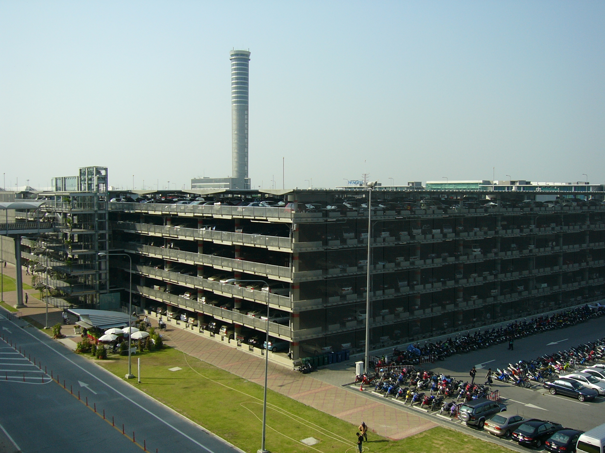 Main Multi-storey car park at Suvarnabhumi International Airport near Bangkok, Thailand. The skywalk seen on the left side connects the Multi-storey car park with the main airport buildings.